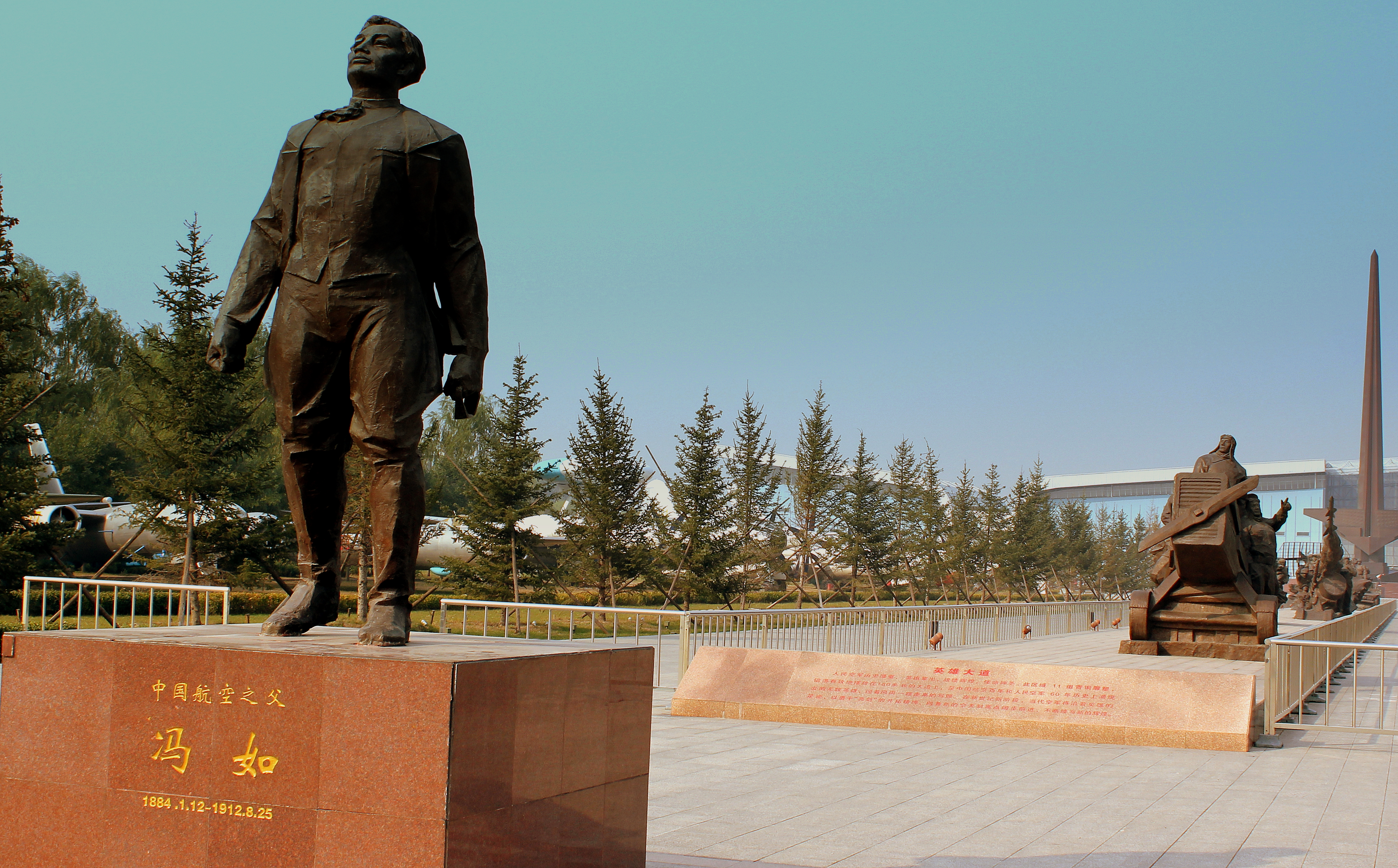 CHINA AVIATION MUSEUM AT DATANSHAN CHINA OCT 2012